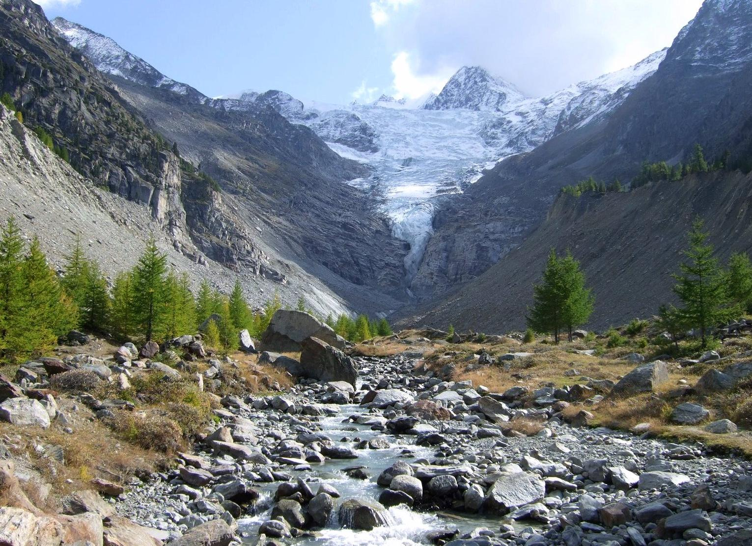 Ried glacier and Dürrenhorn, from approx 2.000 metres above sea level